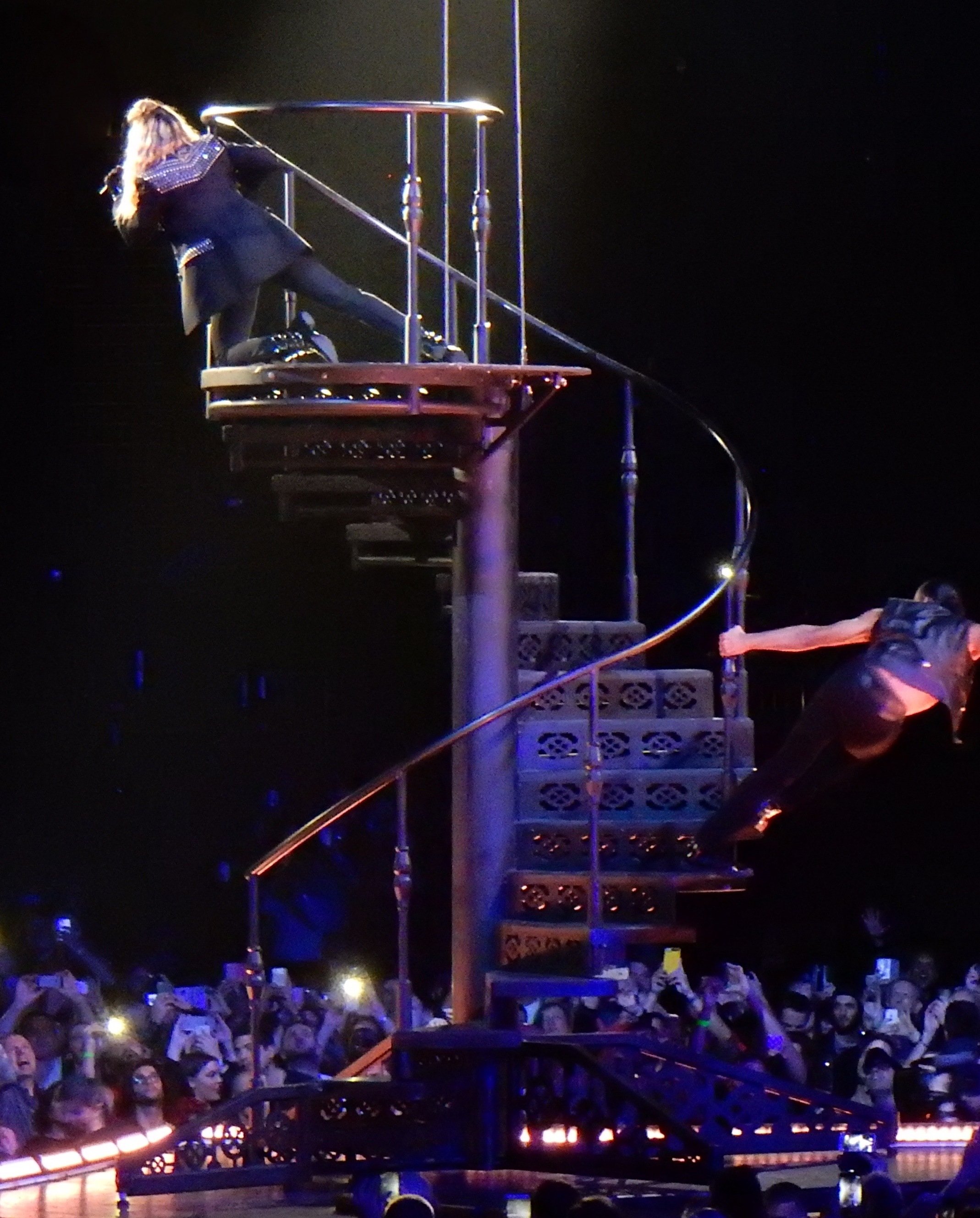 Madonna - Rebel Heart Tour 2015 - London 2